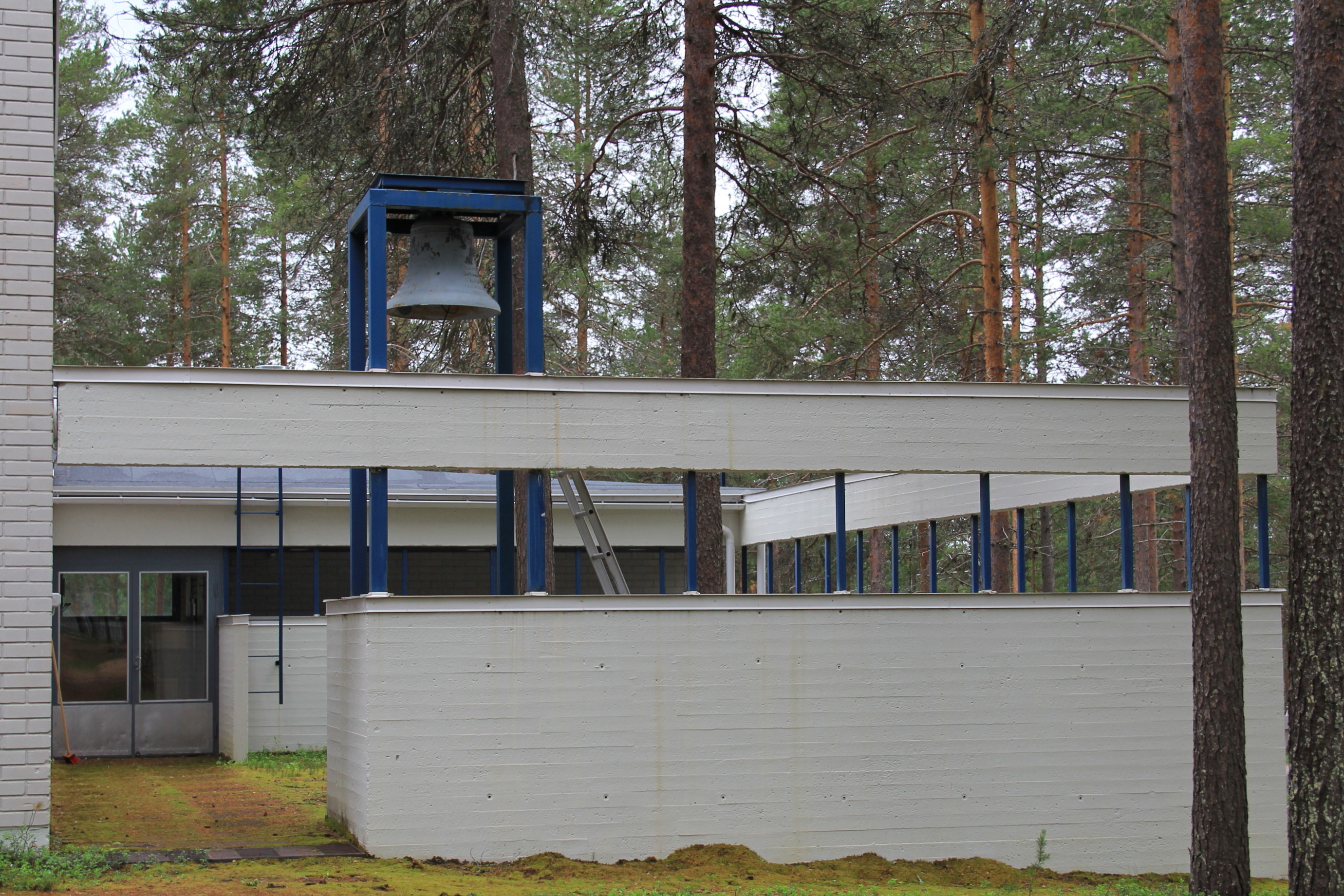 Meltosjärvi church, Ylitornio, Finland. - Seen from northeast, from cemetery. bell tower.